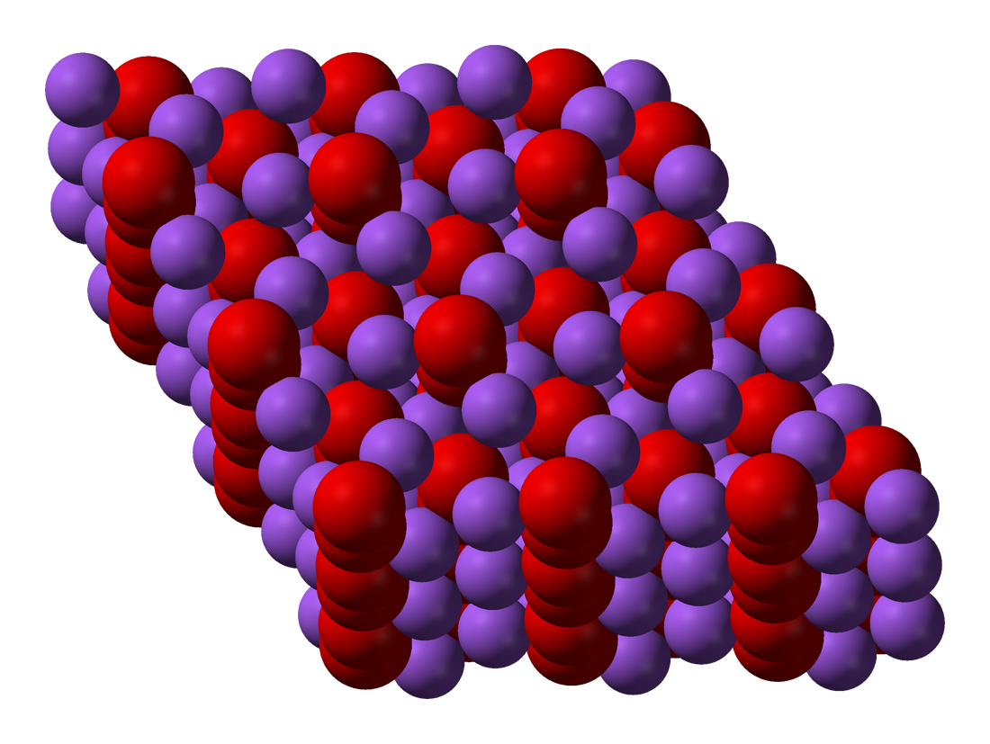 Space-filling model of part of the crystal structure of sodium peroxide, Na2O2